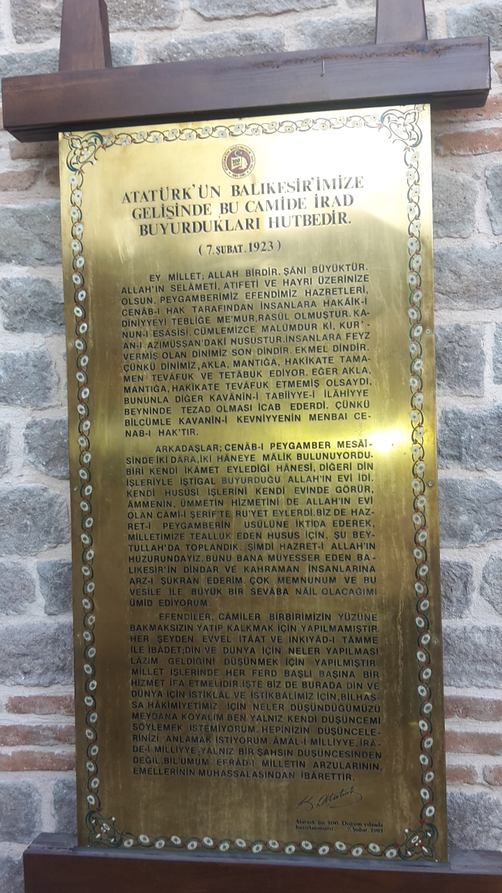 Friday sermon (khutbah) of Mustafa Kemal Atatürk at the Zagan Pasha Mosque in Balikéssir.